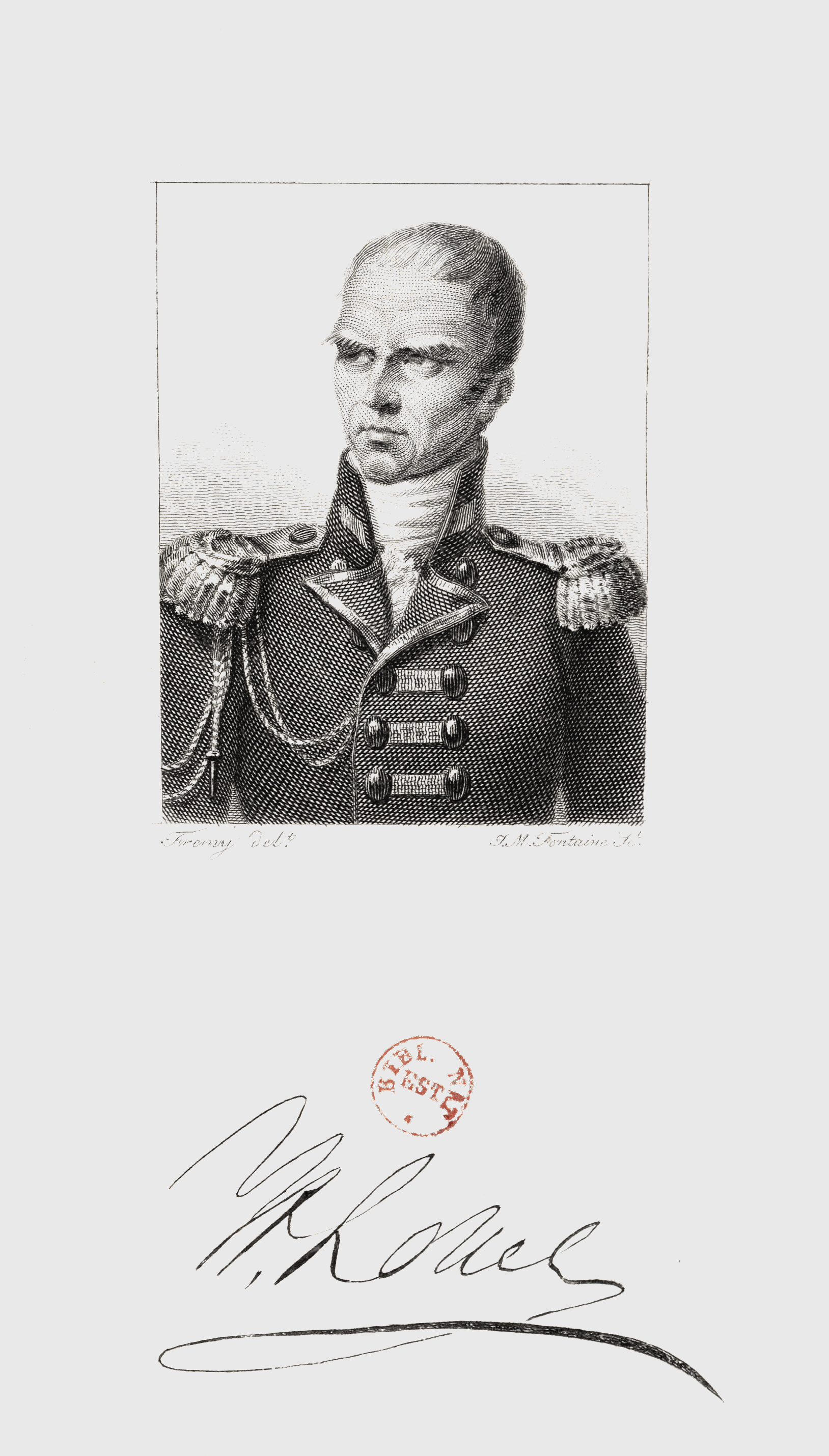 Sir Hudson Lowe (1769 – 1844) Anglo-Irish soldier and colonial administrator who is best known as Governor of St Helena where he was the "gaoler" of Napoleon Bonaparte. His signature.